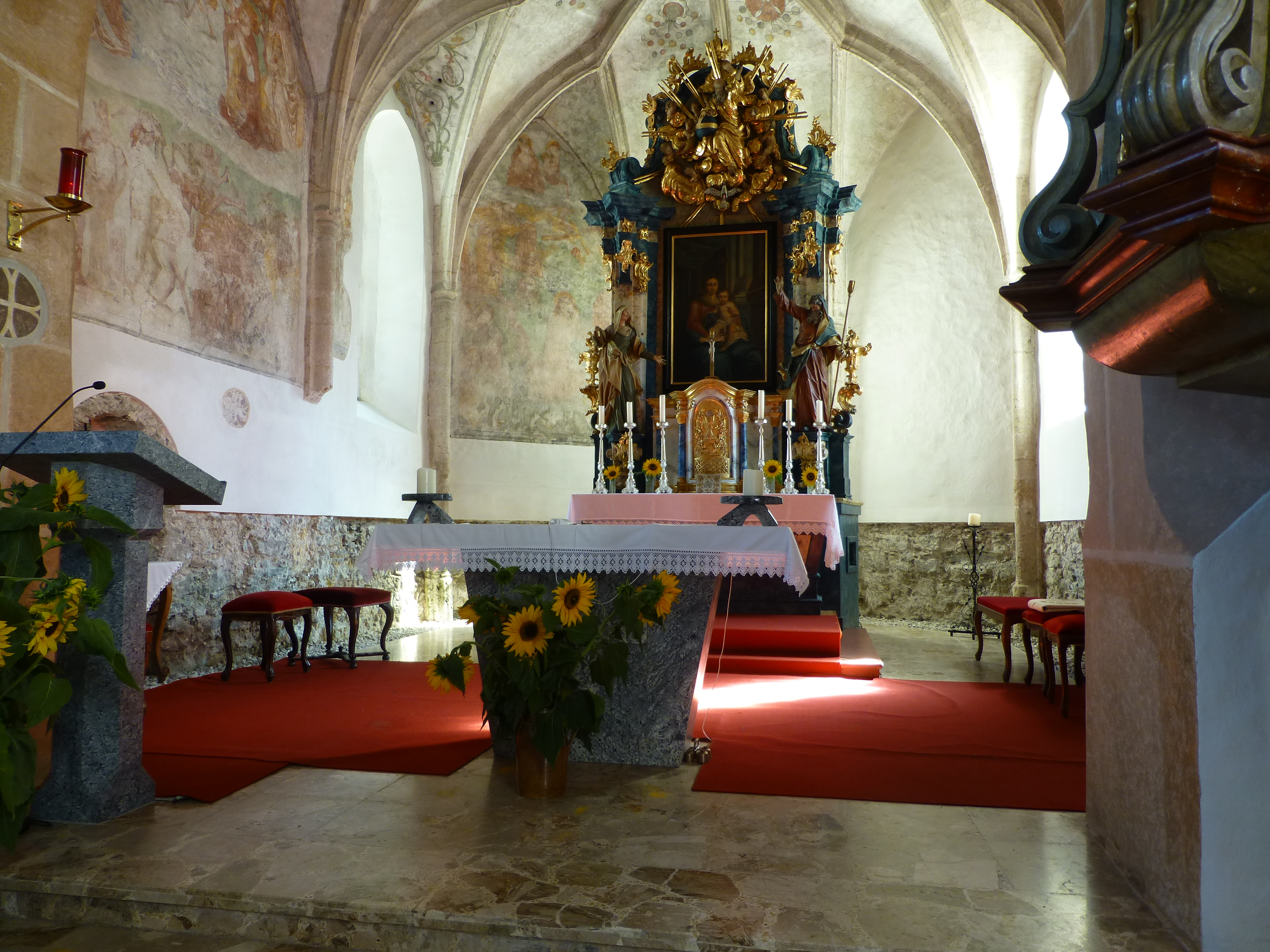 Interior of Saint Bartholomew, Hohentauern, Styria.